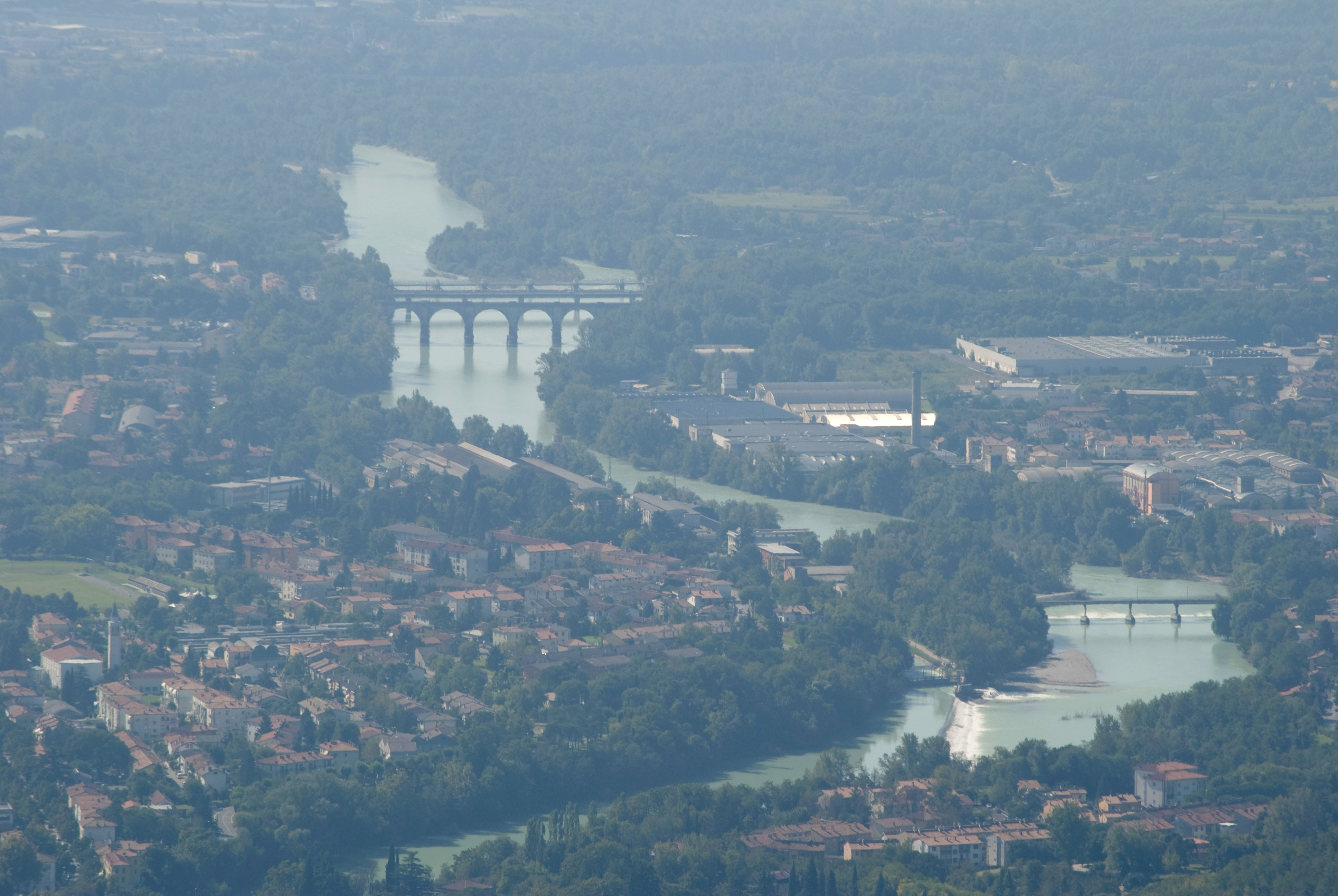 river Isonzo